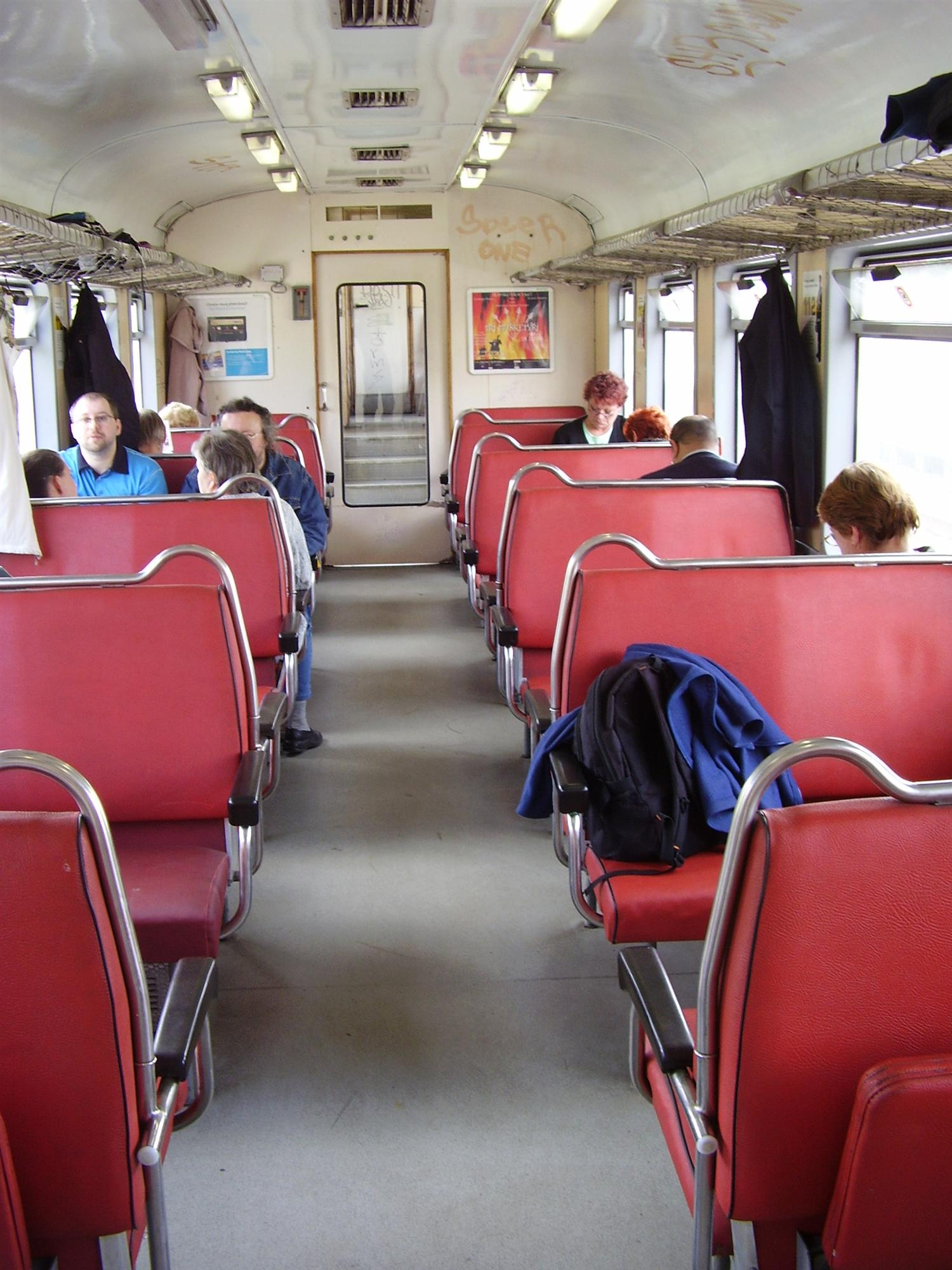 Interior of electric multiple units 452 (452-016-9)